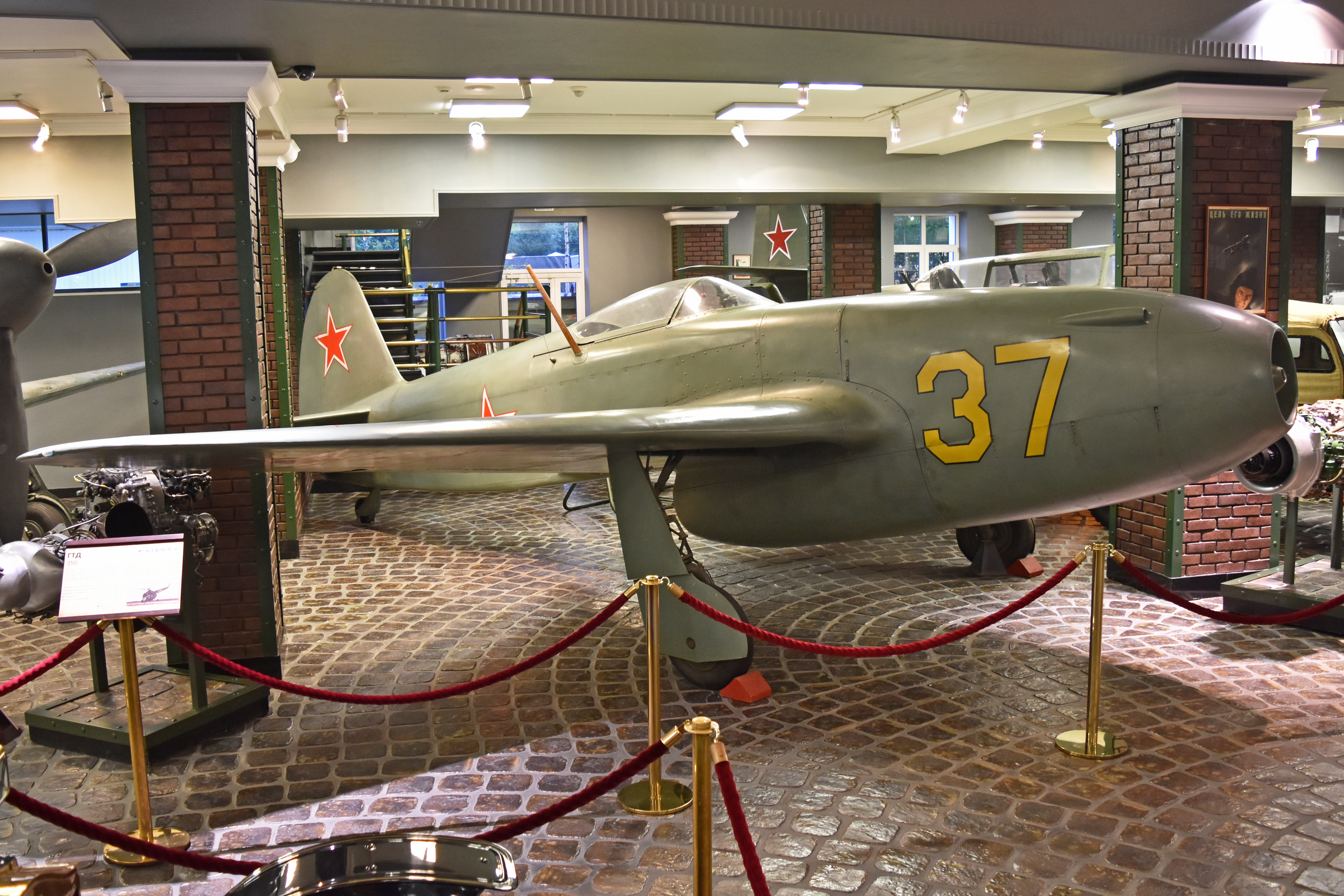 c/n reported as 31007 NATO codename:- Feather The Yak-15 was essentially a Yak-3 airframe fitted with a copy of the Junkers Jumo 004 jet engine. It was one of only two aircraft types ever to be successfully converted from piston to jet power, the other being the Saab J-21, This is the only known survivor of the 280 built. On display at the Vadim Zadorozhny Technical Museum, Arkhangelskoye, Moscow Oblast, Russia. 26th August 2017